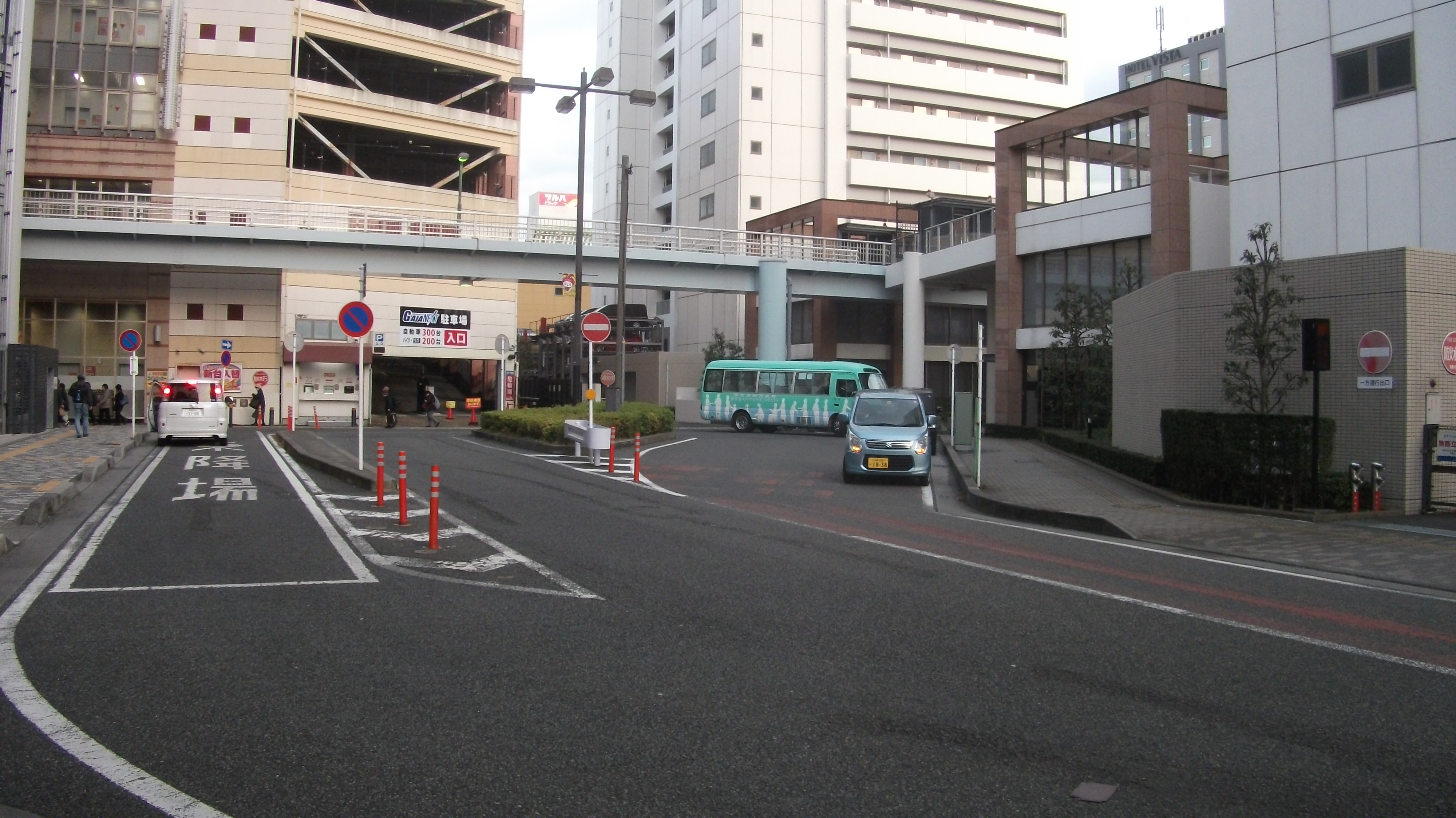 Sub rotary at Ebina station West entrance in Japan.